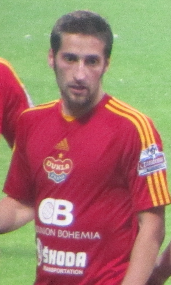 Petr Malý of FK Dukla Praha after the match against FC Vysočina Jihlava